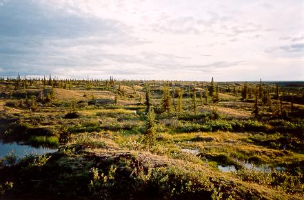 Shadows from 10 pm sun on tundra near Tuktut Nogait National Park